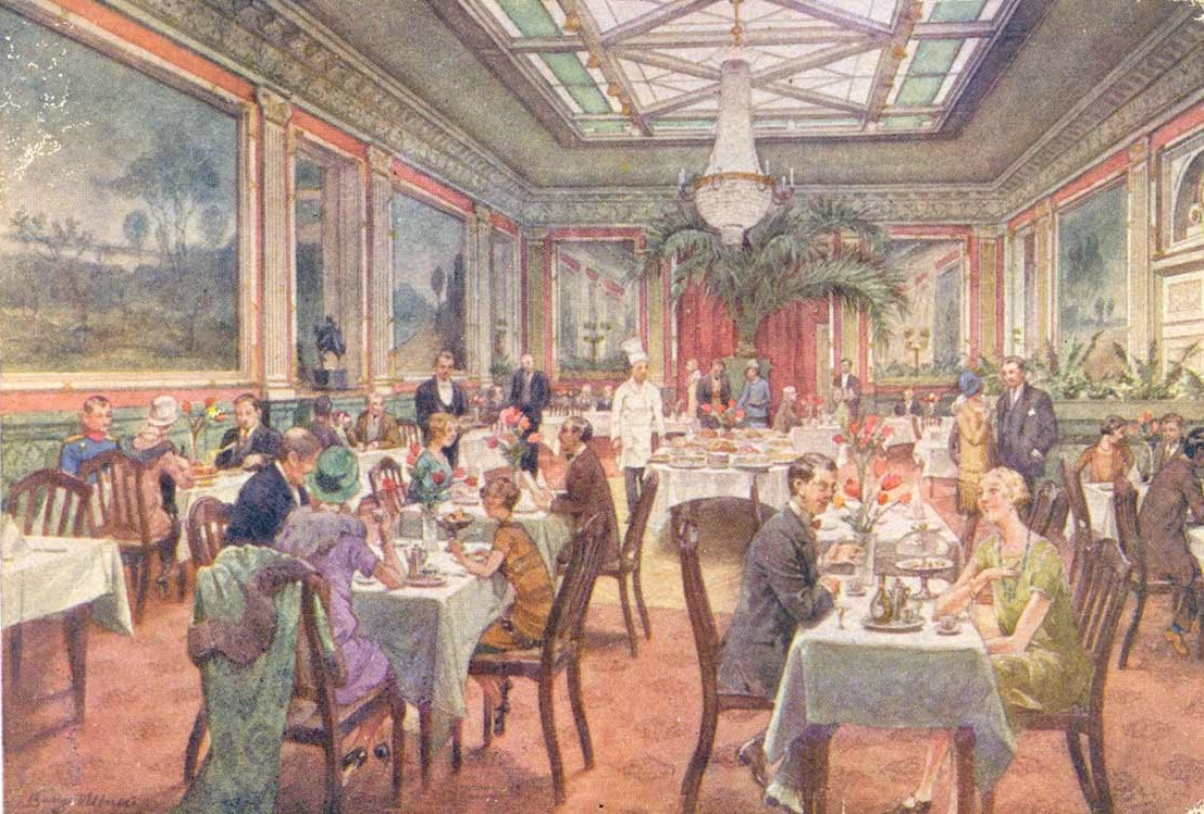 The Cavallier Hall in Hotel Phoenix in Copenhagen, Denmark